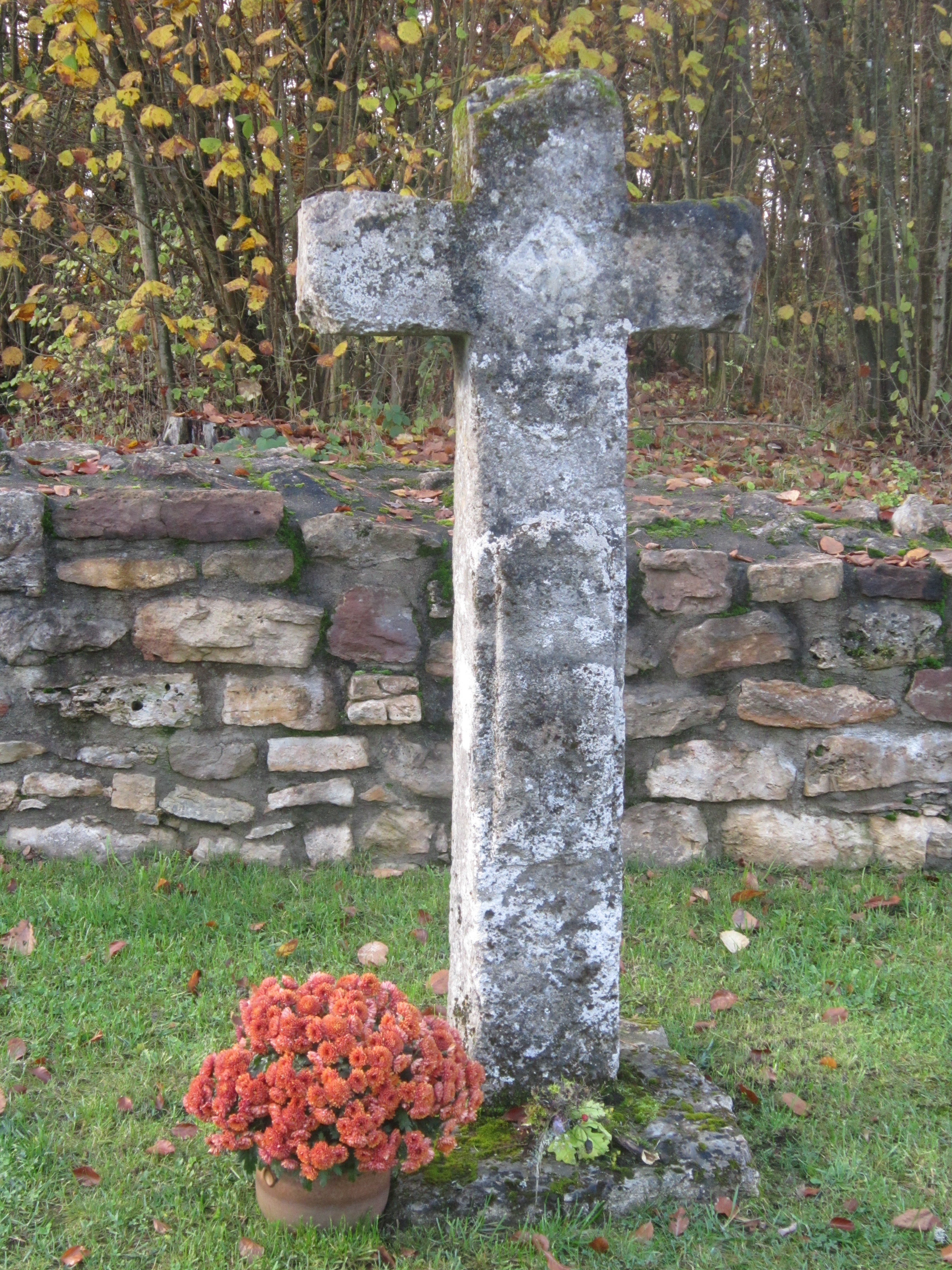 Cross in the yard the "Michelskapelle", a monastery ruin in Burghausen, a quarter of the German town of Münnerstadt in Lower Franconia (Bavaria).